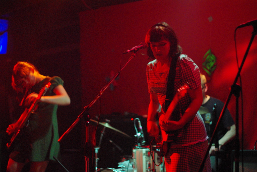 Bang Bang Club / Berlin / December 13th 2009